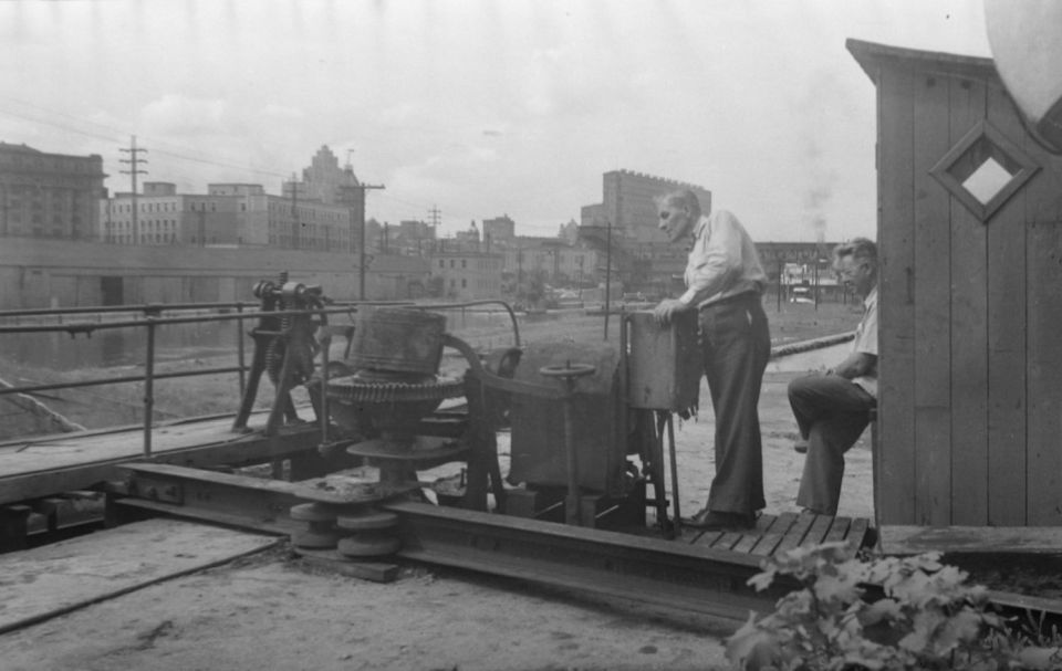 The lock keeper performs the opening maneuvers doors of a lock on the Lachine Canal in Montreal. It turns the handle of the gear system.